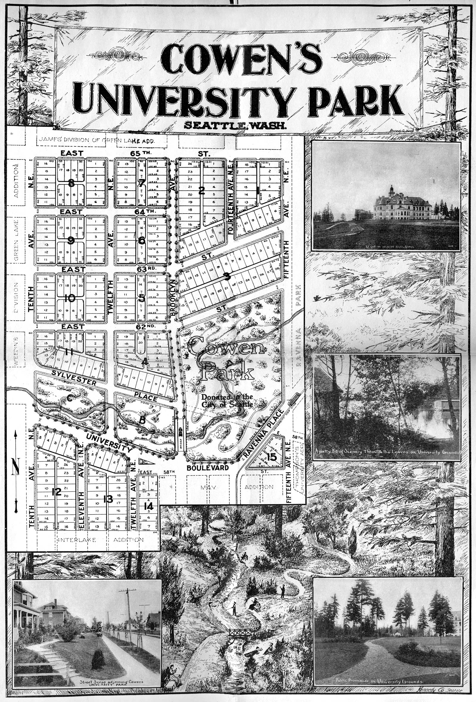 Page from developer's chapbook for Cowen's University Park Division, Seattle, ca. 1906.